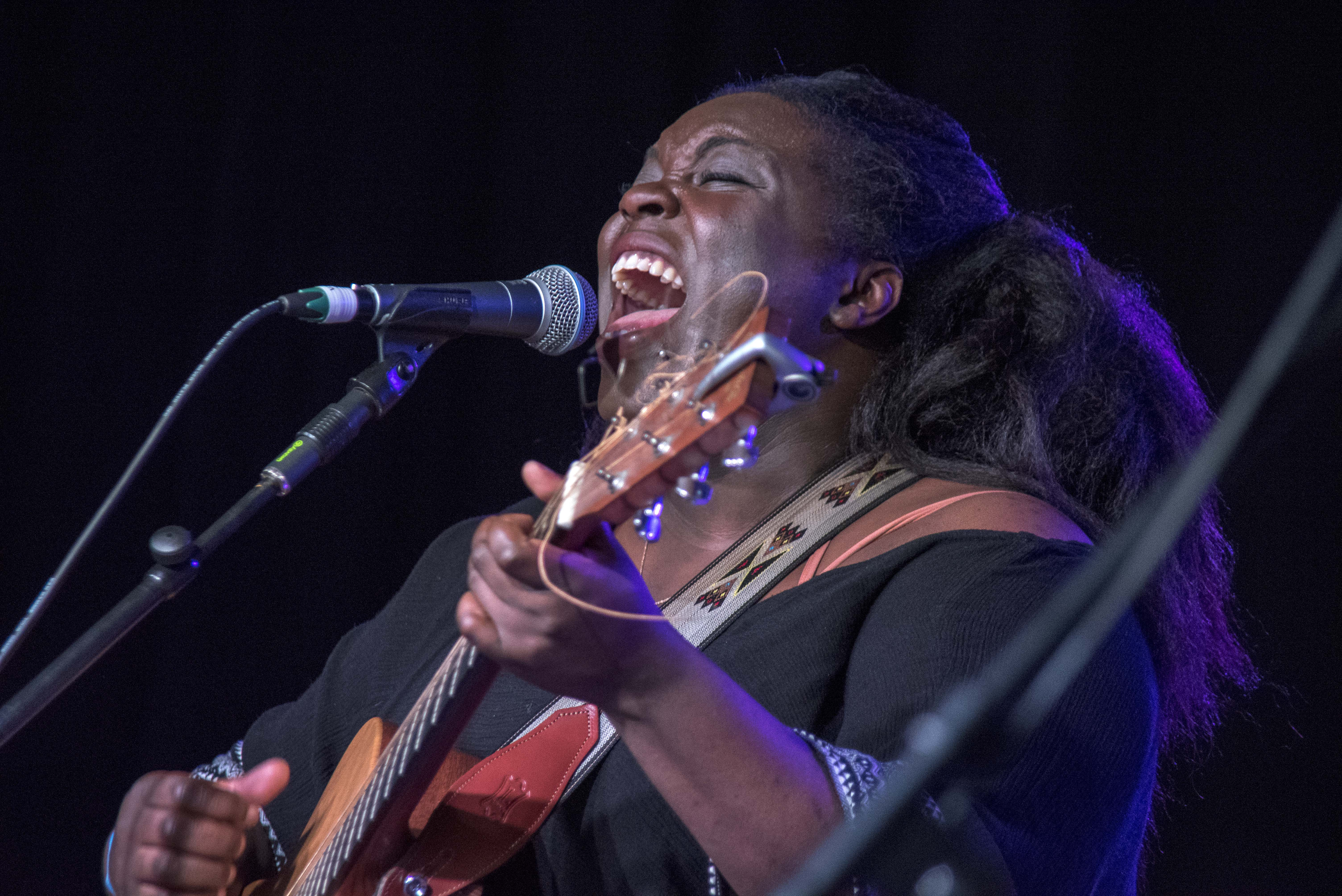 Yola performing at the Underneath the Stars Festival in 2017.